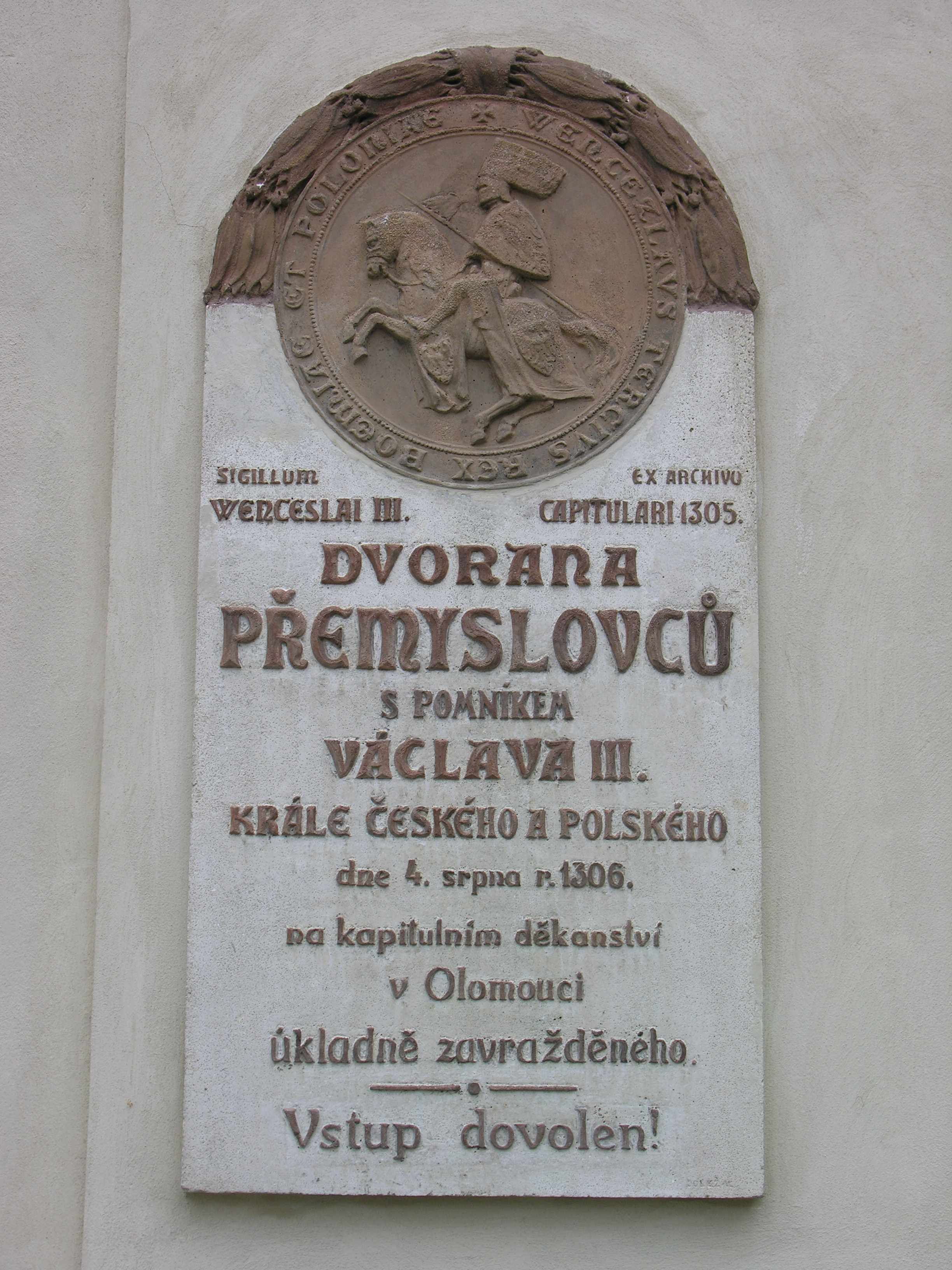 memorial plague with depiction if the seal of Wenceslaus III of Bohemia in Olomouc